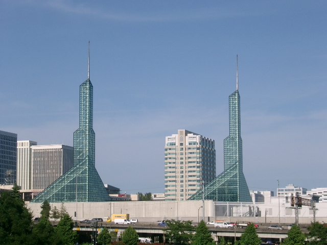 The Oregon Convention Center in Portland, Oregon